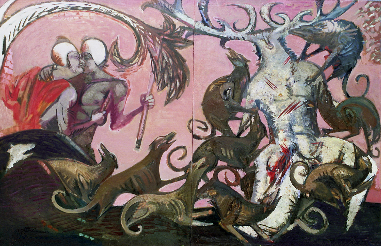 Vasiliy Ryabchenko. "The Death of Actaeon", 200 х 300 cm, oil on canvas, 1988